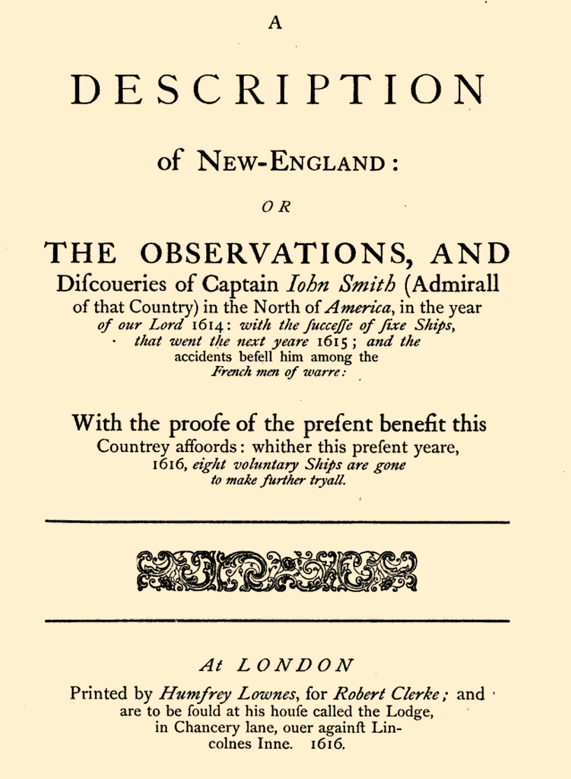 Title page of the 1865 reprint of the 1616 Description of New England by John Smith. The\is title page appears to be a good facsimile of the original depicted at File:Descr.of.New England-Title page.jpg, but the image is much higher resolution and quality.